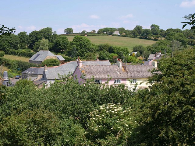 Capton roofs